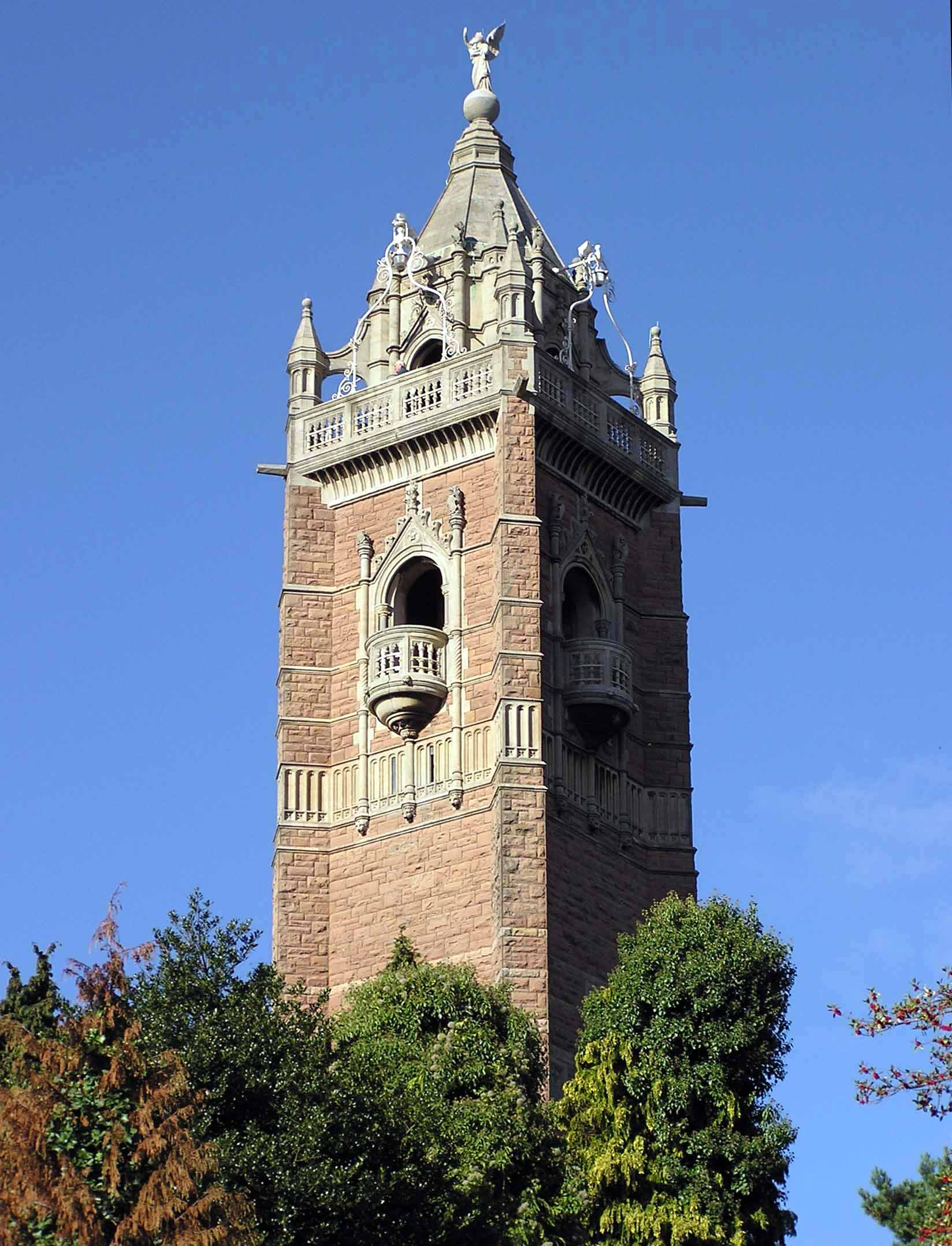 The Cabot Tower, Bristol, England. The 105 foot high (32 metre) Cabot Tower on Brandon Hill is in the city centre of Bristol, England. The tower was opened in 1898 to commemorate the 400th anniversary of explorer John Cabot’s voyage to America in 1497. The tower was built from red sandstone and cream Bath stone. The roman numerals CCCC(400) are engraved on the four sides. The winged figure on top represents Commerce. The tower is free admission. The view includes the leisure and housing complex being built at Canons Marsh (where At-Bristol is situated), the SS Great Britain ship, the Council House and Cathedral, the impressive University Tower and just a glimpse of the Clifton Suspension Bridge.